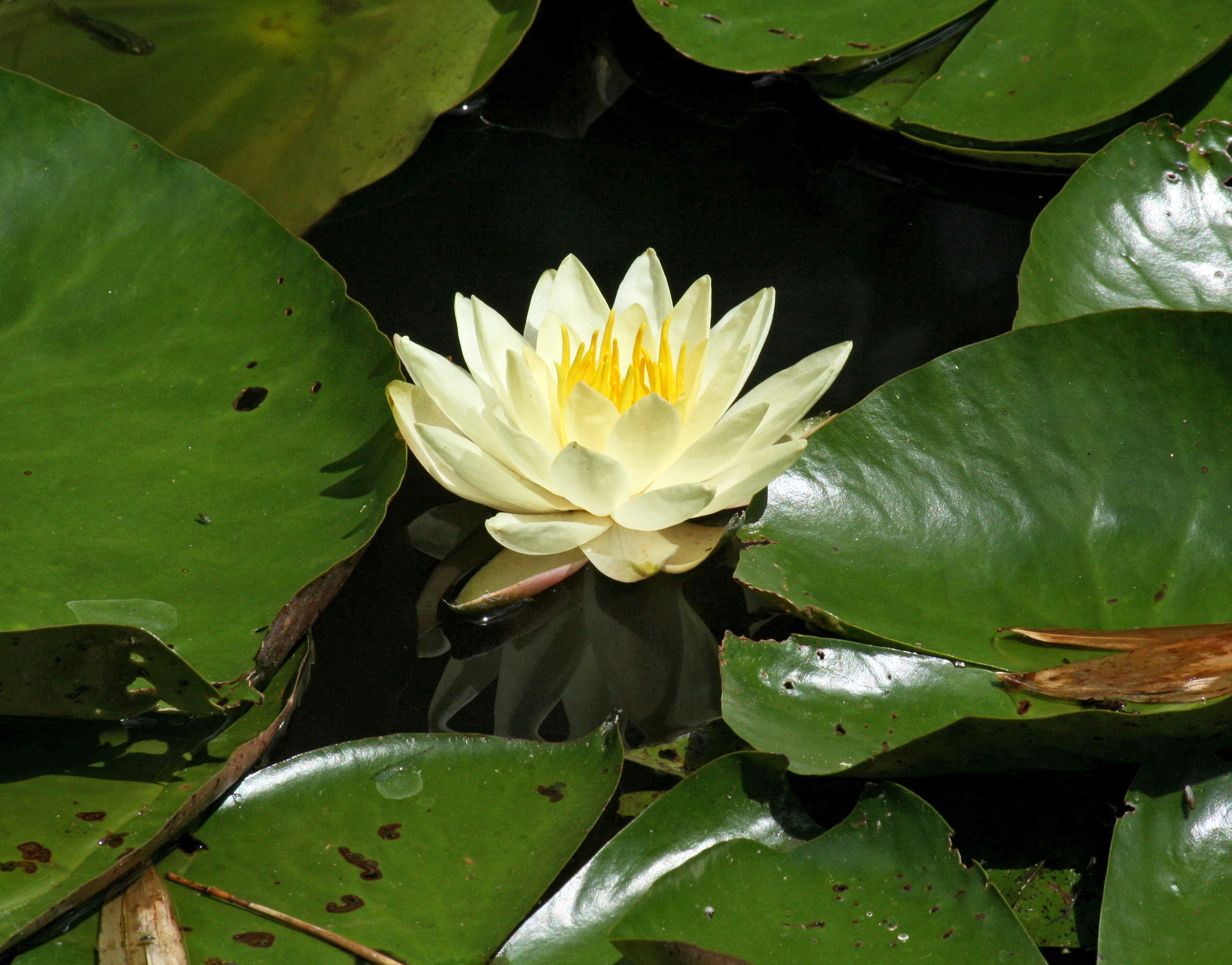 Nymphaea alba taken at Kanapaha Botanical Gardens, Gainesville, Fl